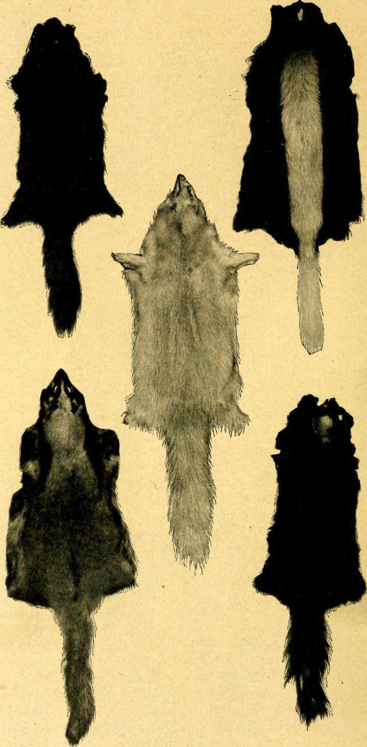 Title: Andersch bros. hunters and trappers guide illustrating the fur bearing animals of North America the skins of which have a market value Year: 1906 (1900s) Authors: [from old catalog]; [from old catalog] Subjects: Hunting; [from old catalog]; Game laws Publisher: [Minneapolis, Minn. , Press of Kimball-Storer co. ] Text Appearing Before Image: ' Text Appearing After Image: (1) Black (2) White (3) Clear White SKUNK SKINS All Tanned (4) Single Striped (5) Star